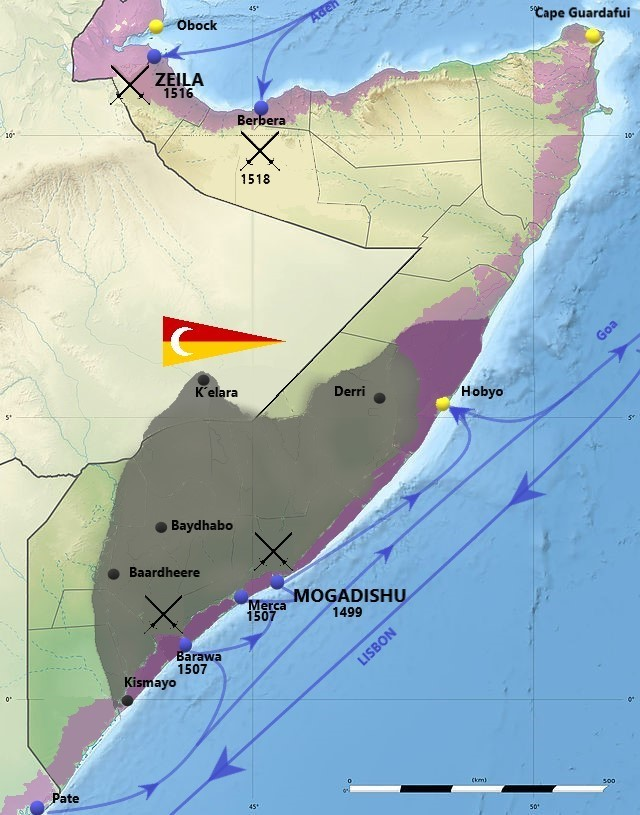 Purple_Portuguese in Somalia and Horn of Africa from 15th to 17th century.Main cities and battles. Yelow_ Factorys and main features. Portuguese - Ajuran Wars